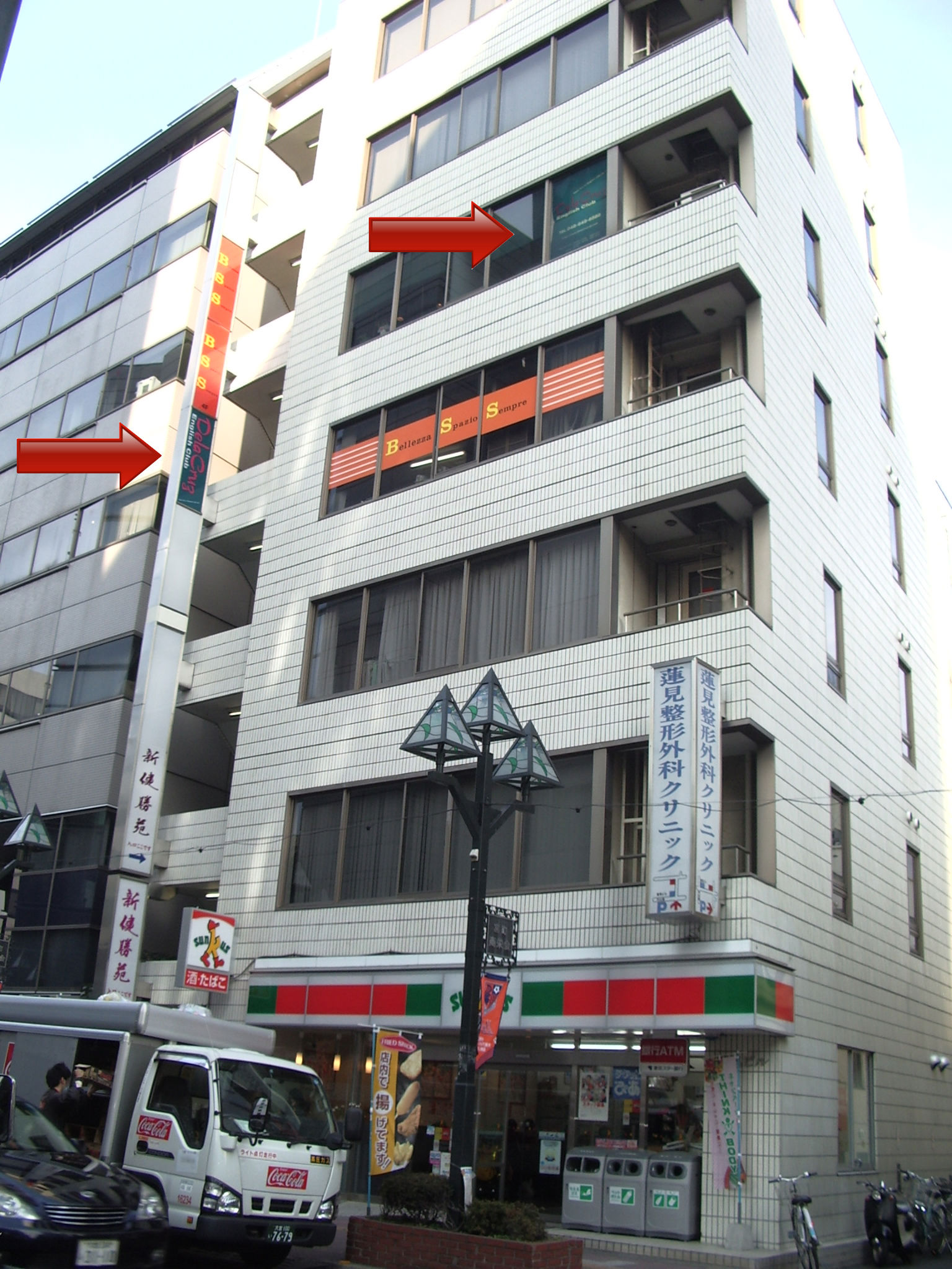 This is the Hasumi Building in Omiya, Saitama. The red arrows point to Dela Cruz English Club's sign and floor.